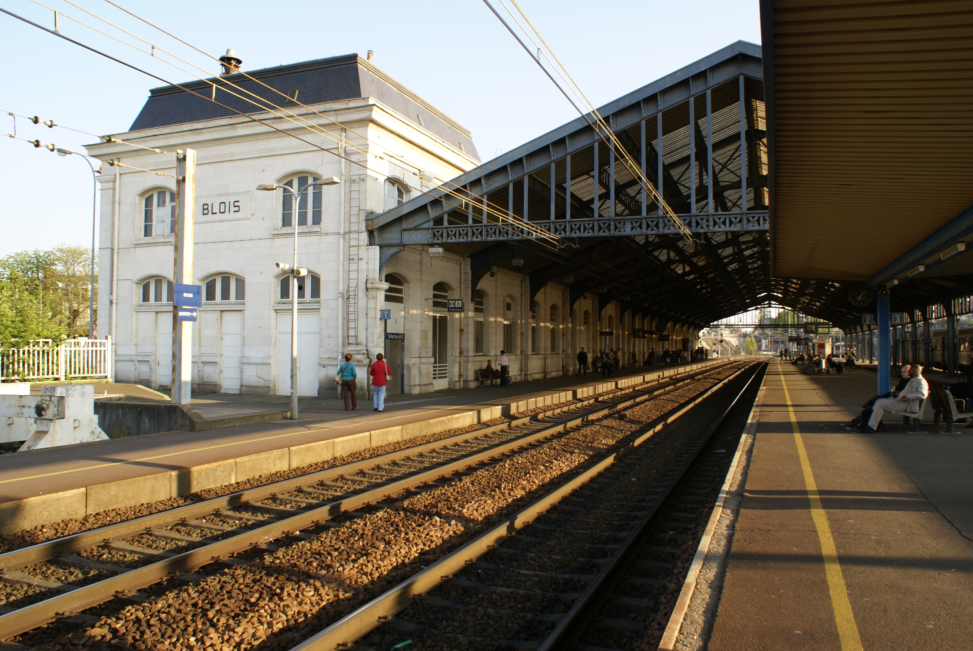 This picture represents the rail station of Blois (France)